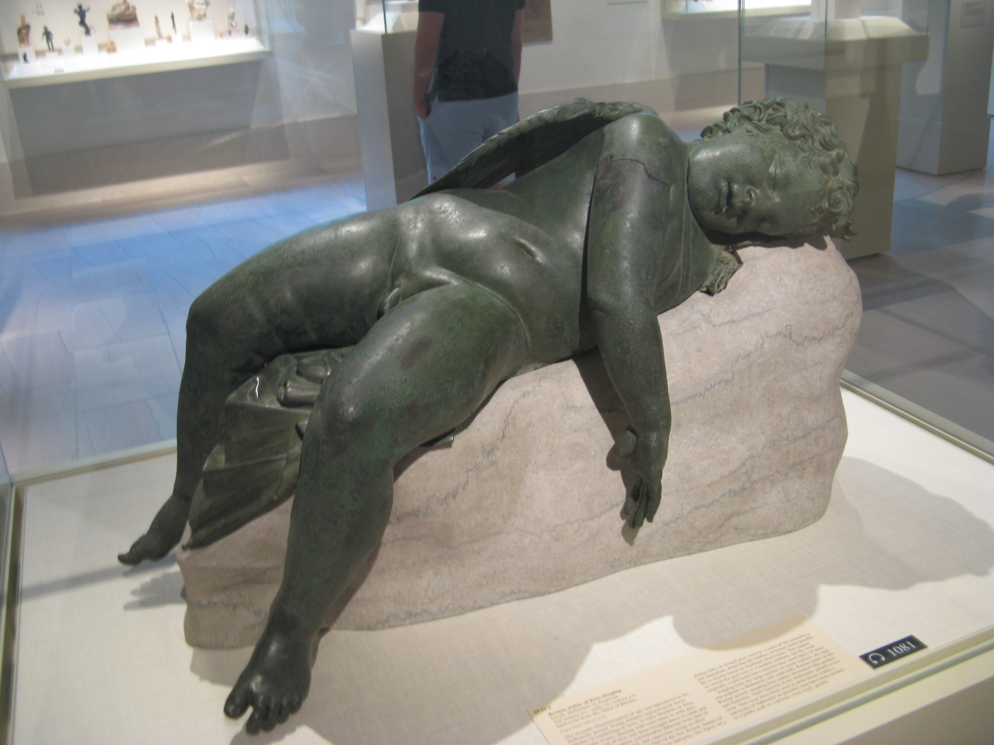 Bronze statue of Eros sleeping at Metropolitan museum of Art..